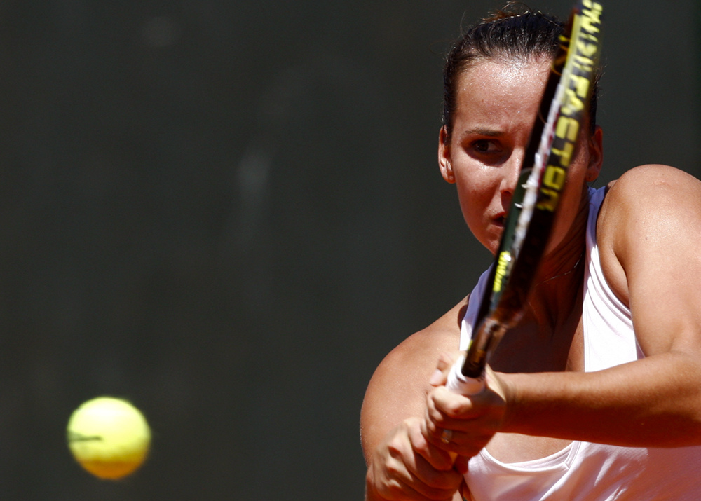 Jarmila Groth (nee Gajdošová) at 2009 Estoril Open, Oeiras, Portugal